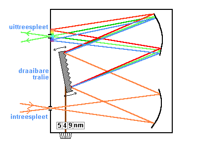 Schematic view of a monochromator.